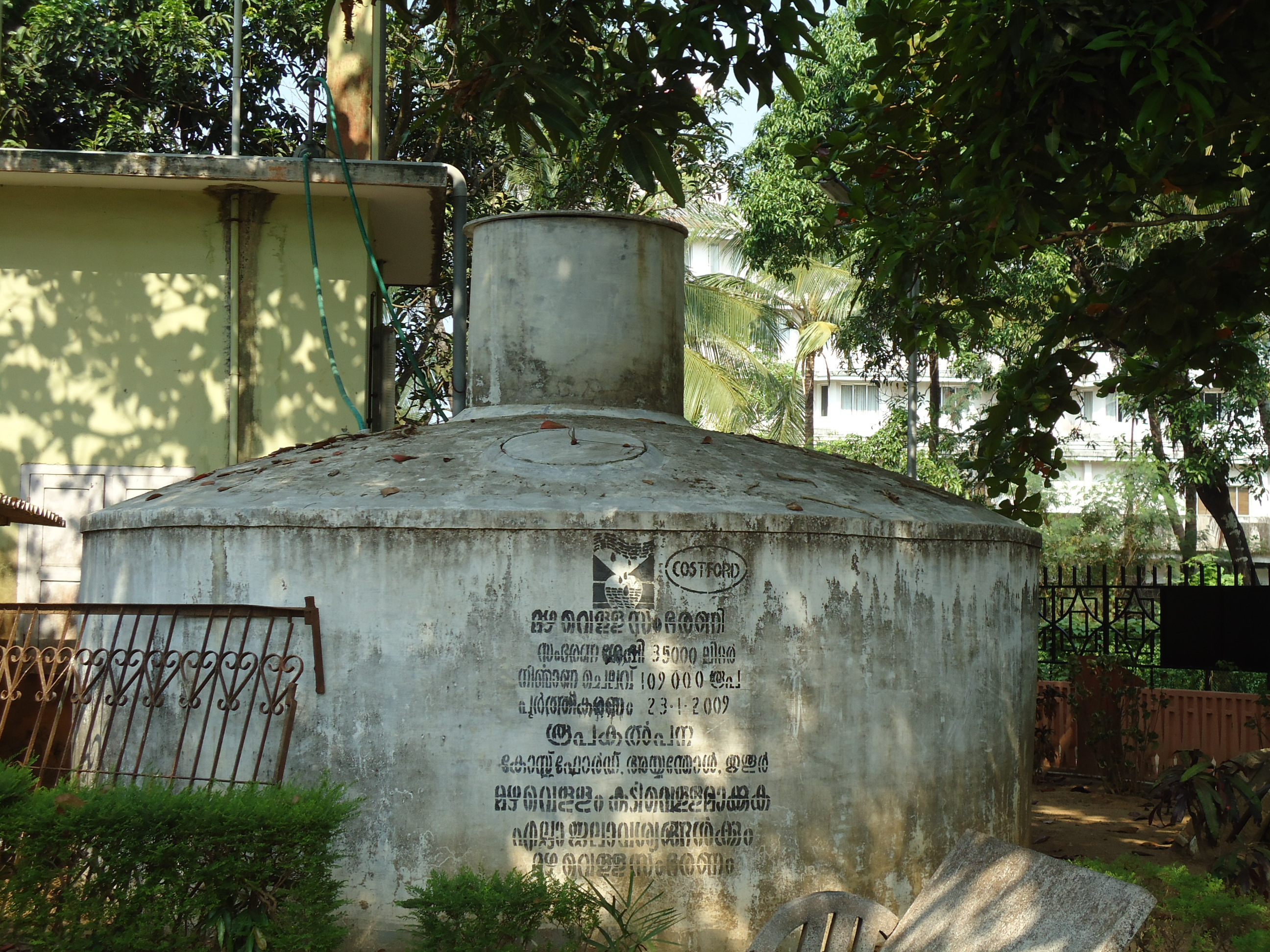 Rain water harvesting tank.